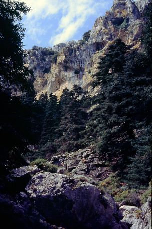 Description: Sierra de las Nieves (natural park in Andalusia, Spain): Gorge with spanish fir Abies pinsapo Source: self-made, first published on my website Photographer/Painter: Jürgen Paeger